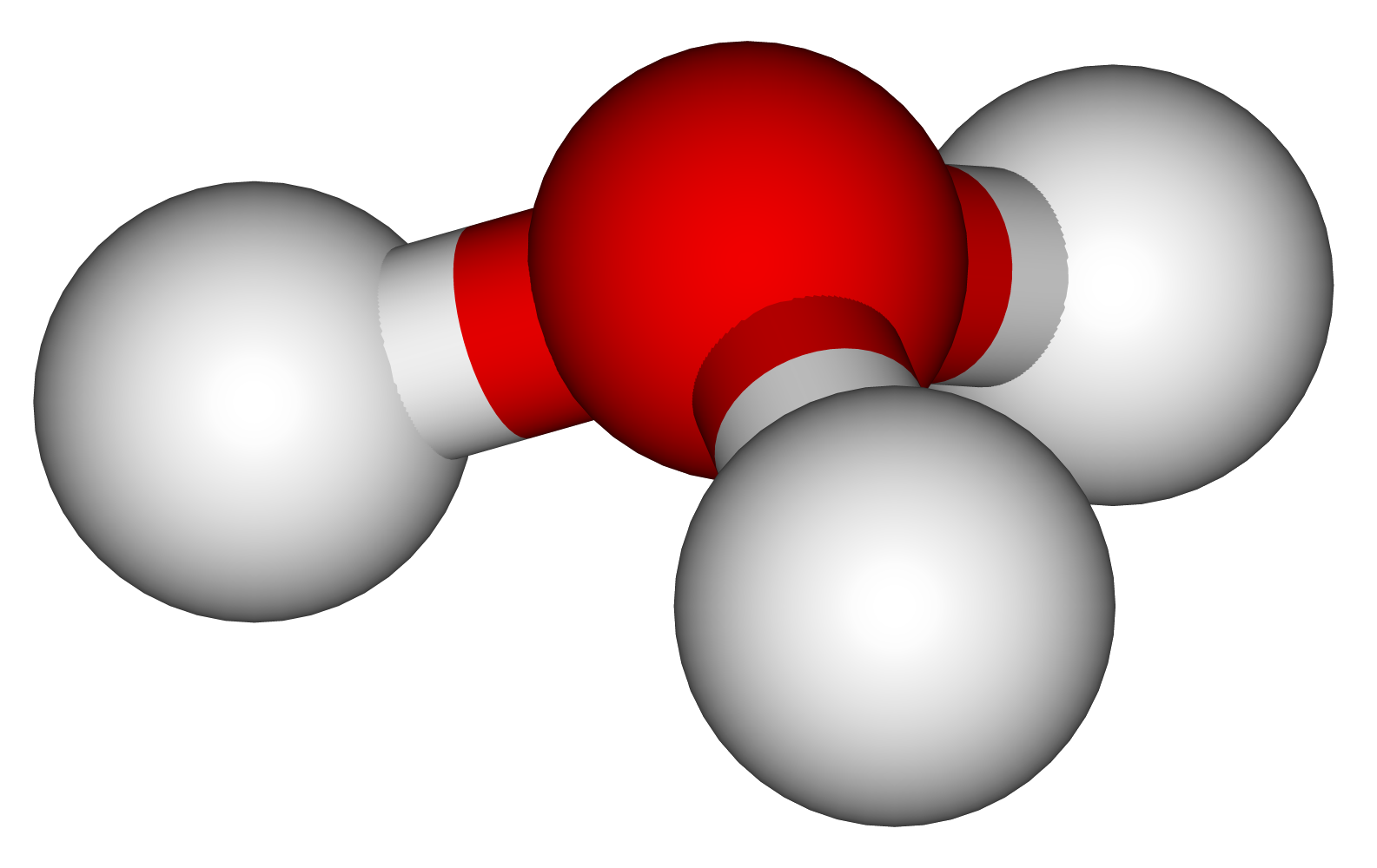 Oxonium ion